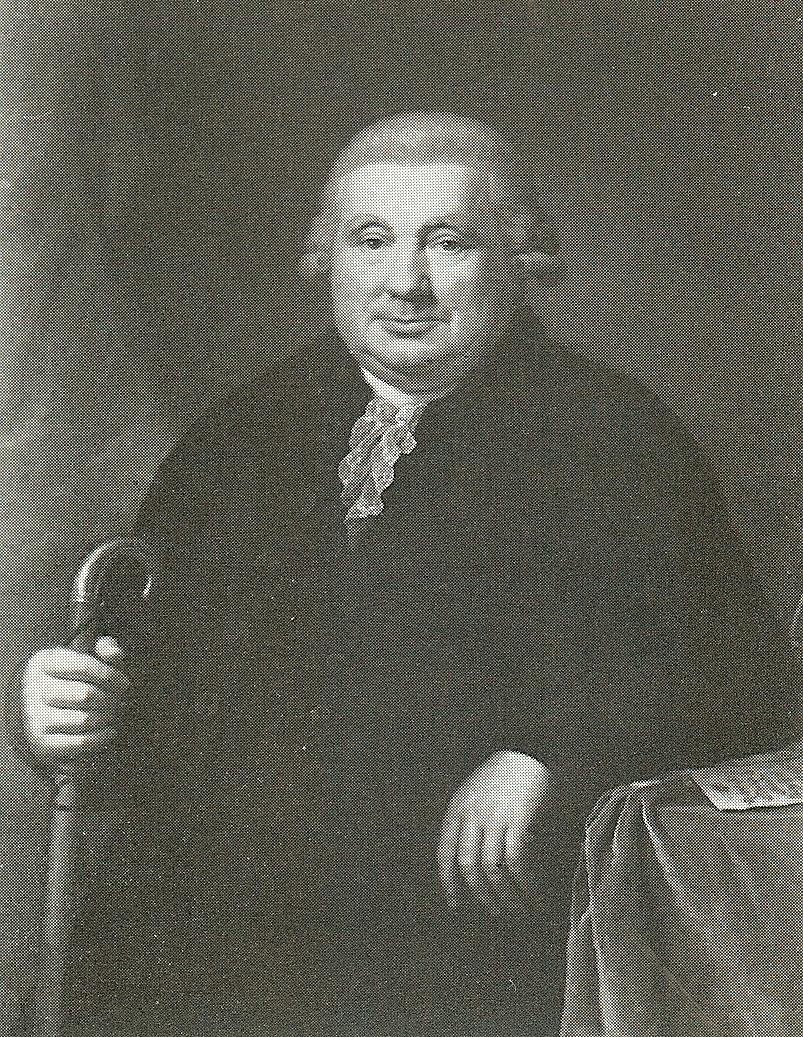 Friedrich Carl groeger: Hans Bernhard Ludwig Lembke, c. 1810? oil on canvas, 97 x 77 cm Museen für Kunst und Kulturgeschichte Lübeck, INv. Nr. 6958 painted after Lembke's death (1803)